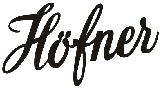 Logo of Höfner, a German manufacturer of musical instruments